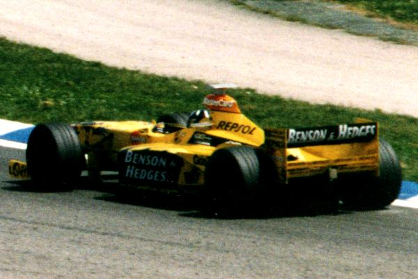 Subject: Damon Hill in the Jordan 198-Mugen-Honda during en:1998 Spanish Grand Prix. Credit: Formulanone -- Personal collection. Camera: Canon EOS Rebel SX Film: Kodak ASA 1000.